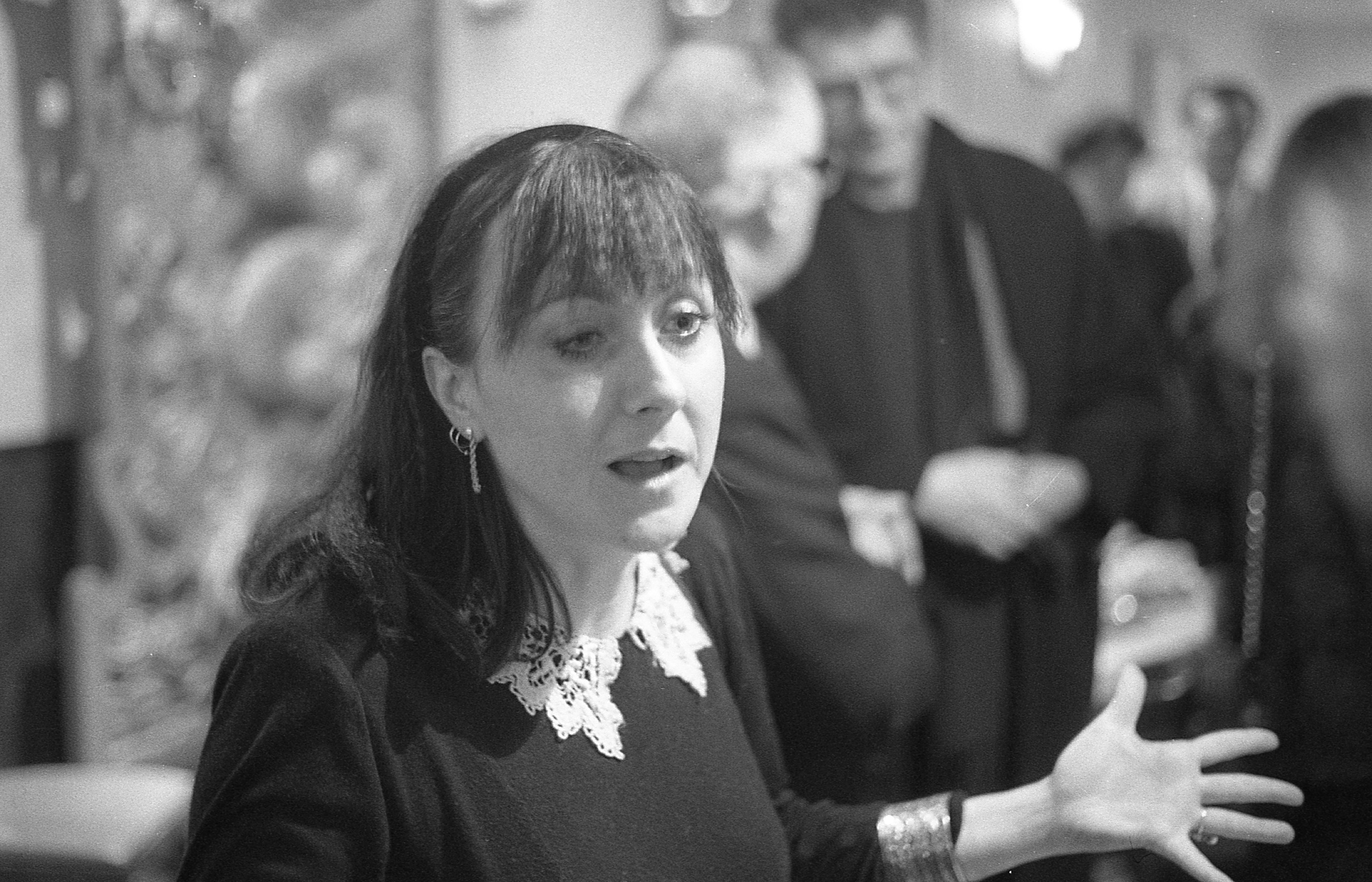 Esther Delisle, Canadian Historian, Montreal, 1992